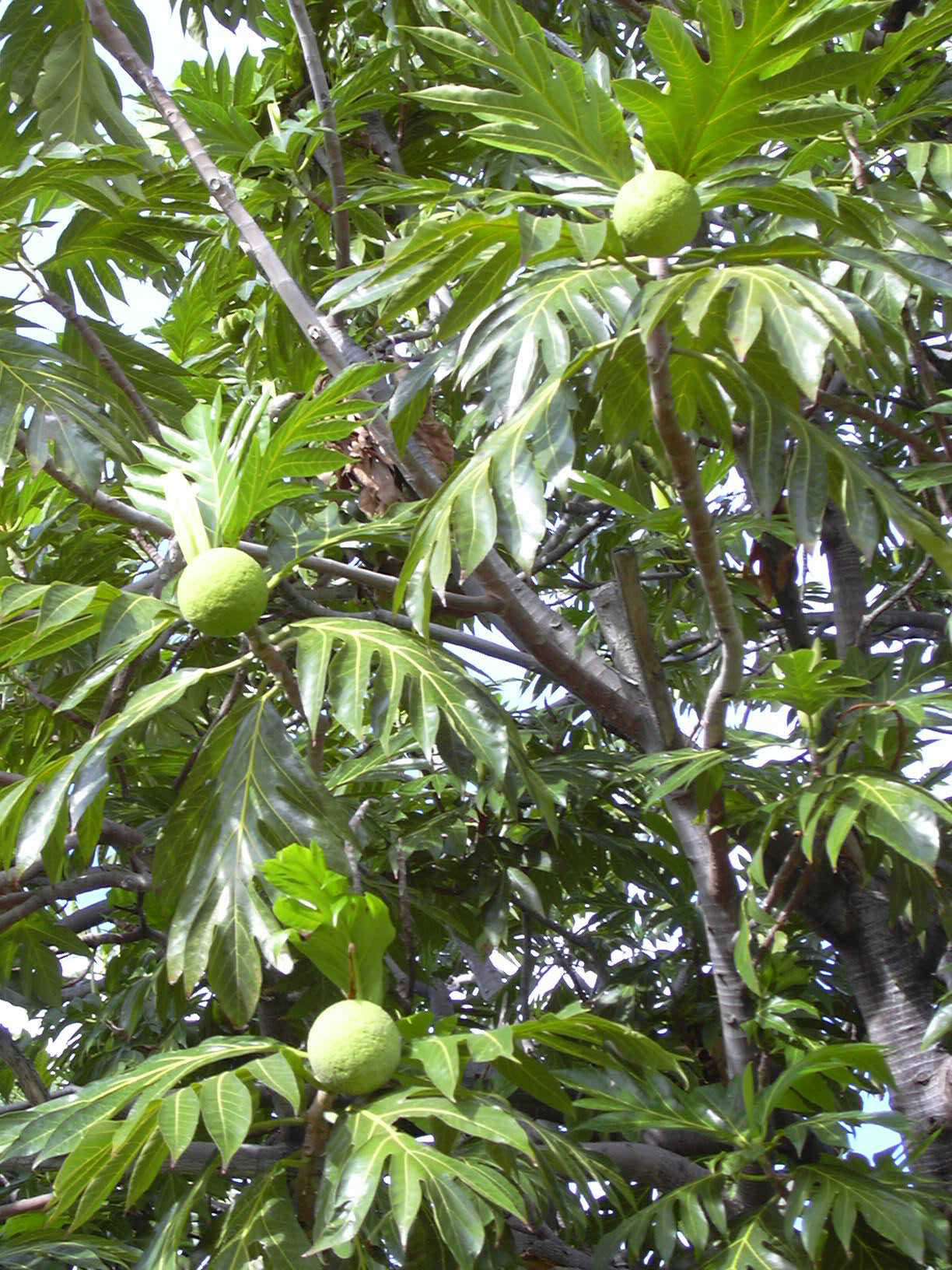 Artocarpus altilis (leaves and fruit). Location: Maui, Puehuihueiki cemetary Lahaina